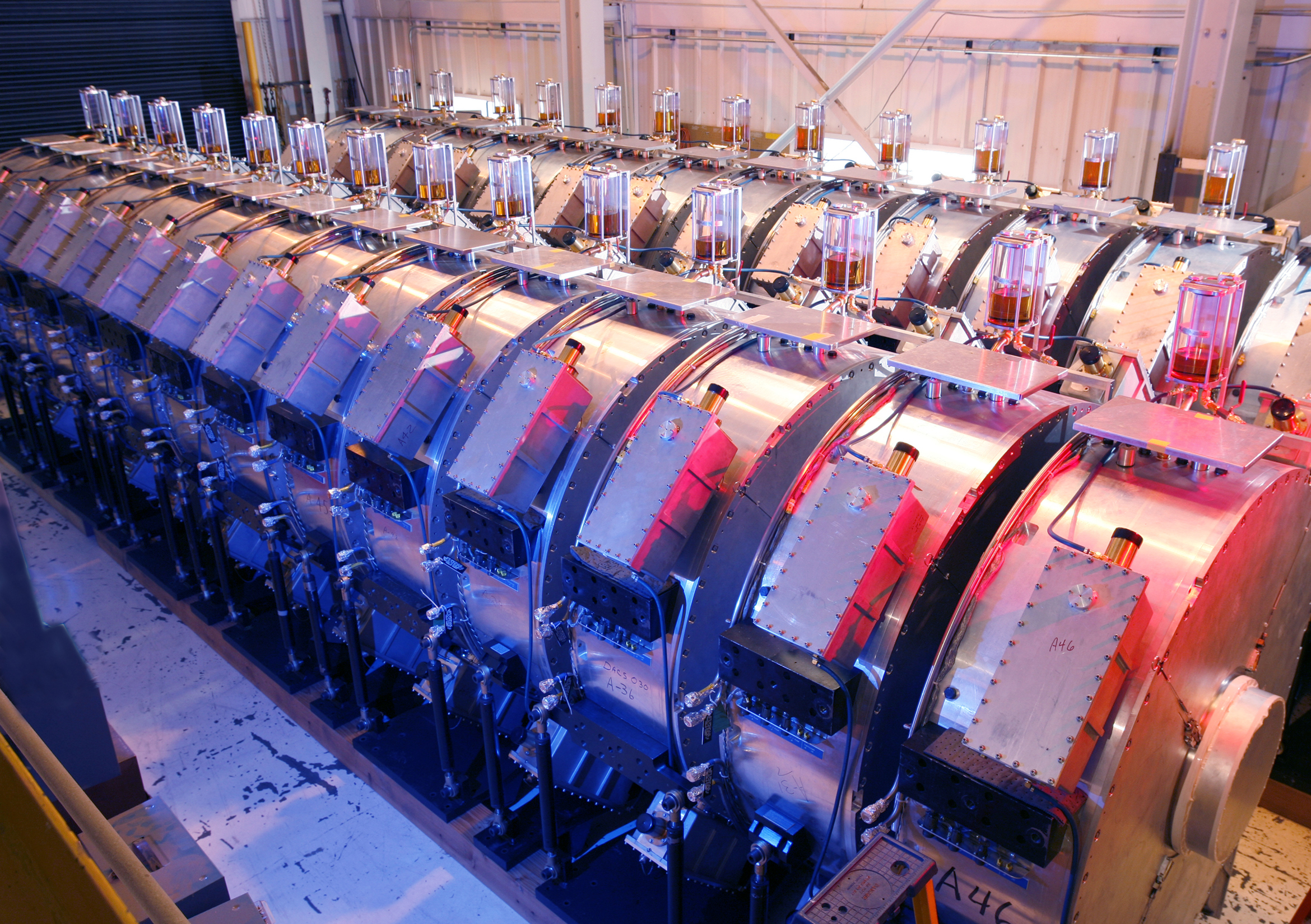 View of 2nd DAHRT accelerator at LANL , New Mexico.